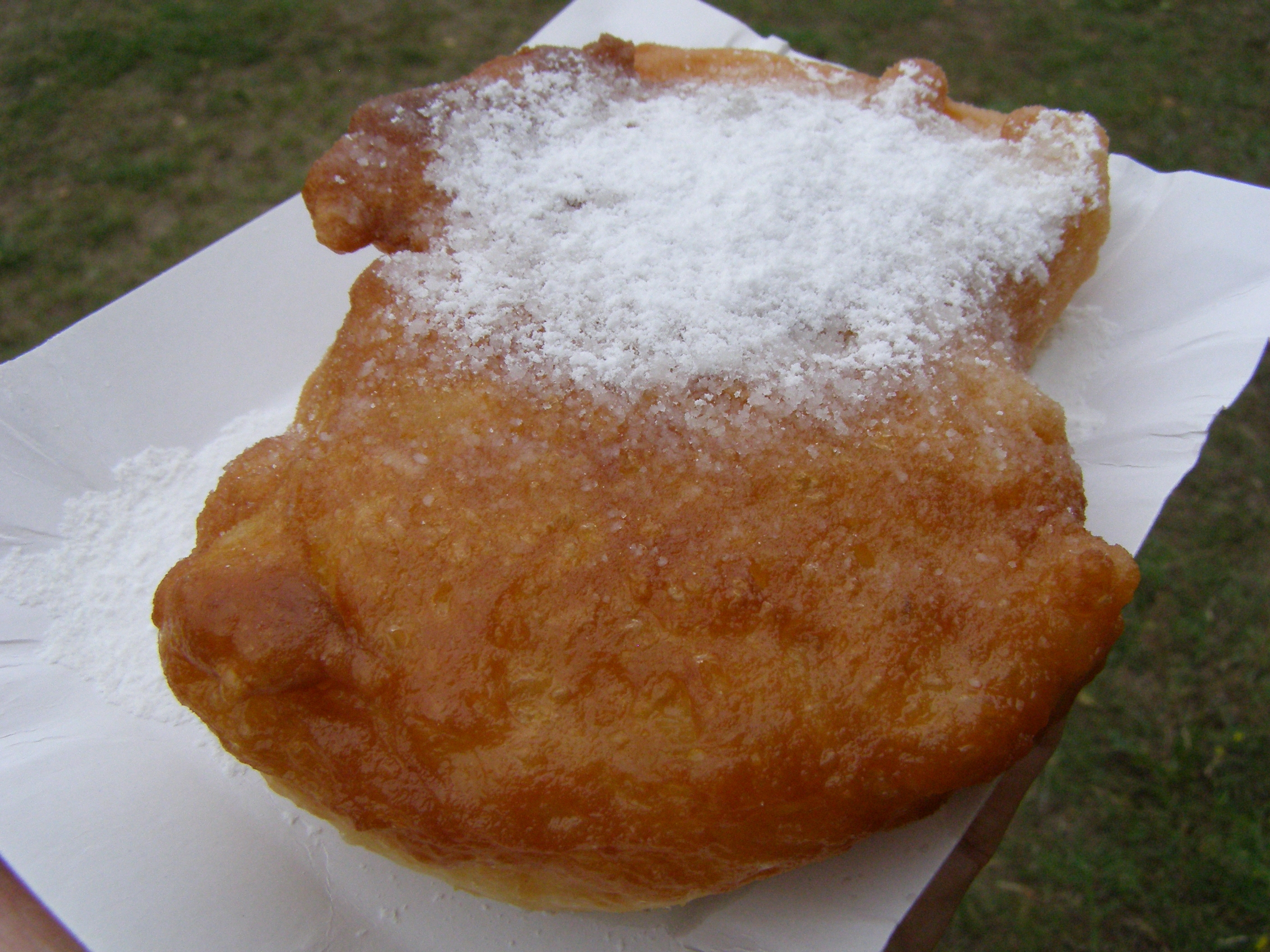 Wdzydze Kiszewskie - Kashubian Ethnographic Park - ruchanka pancake